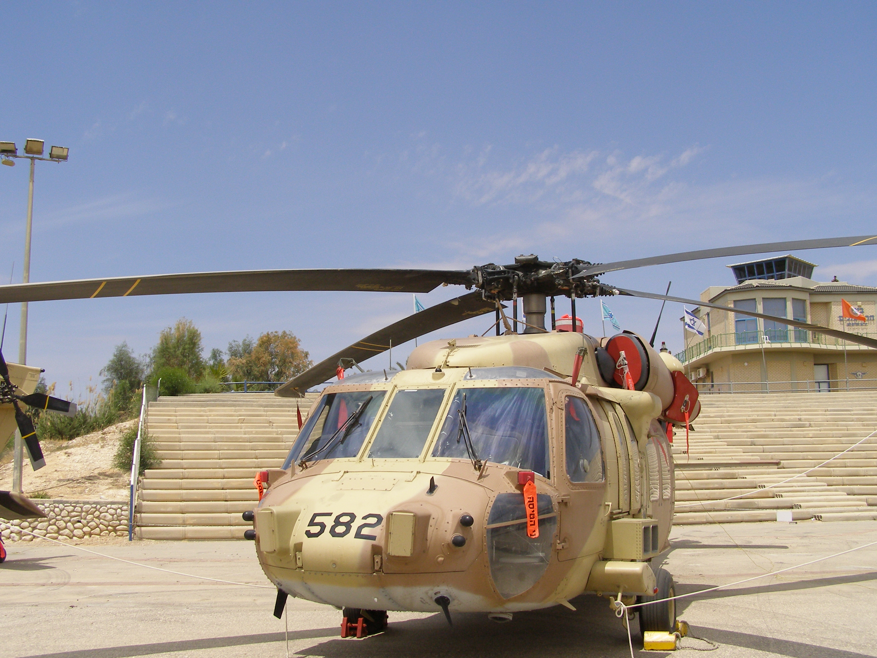 Israel Air Force UH-60 Blackhawk "YANSHUF"